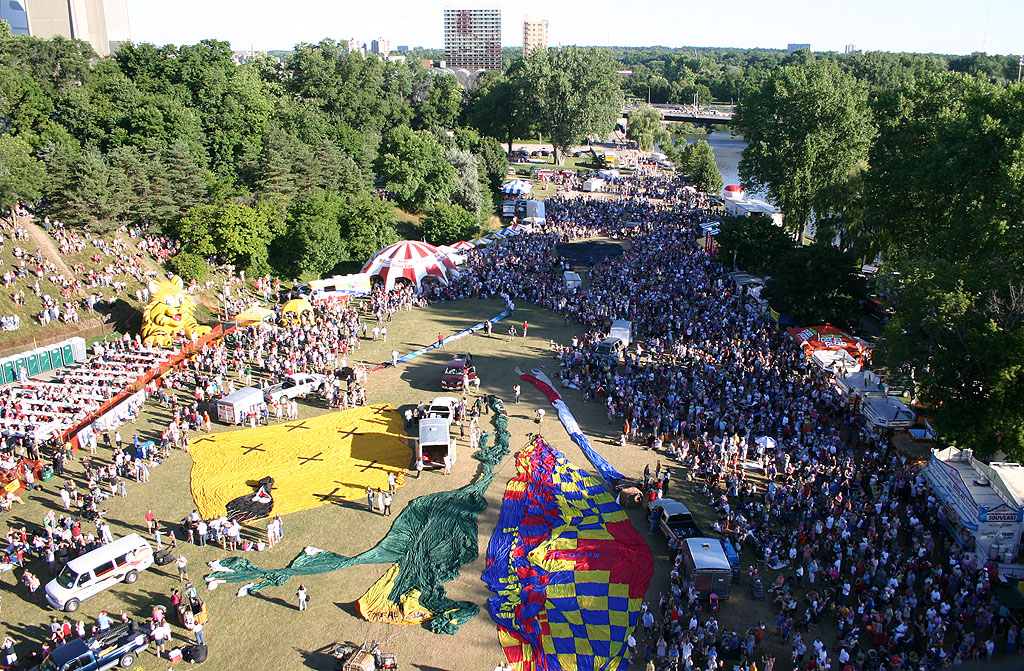 A view of the crowds at Harris Park during the 2005 London Balloon Festival. Photo by Duke on July 30, 2005.